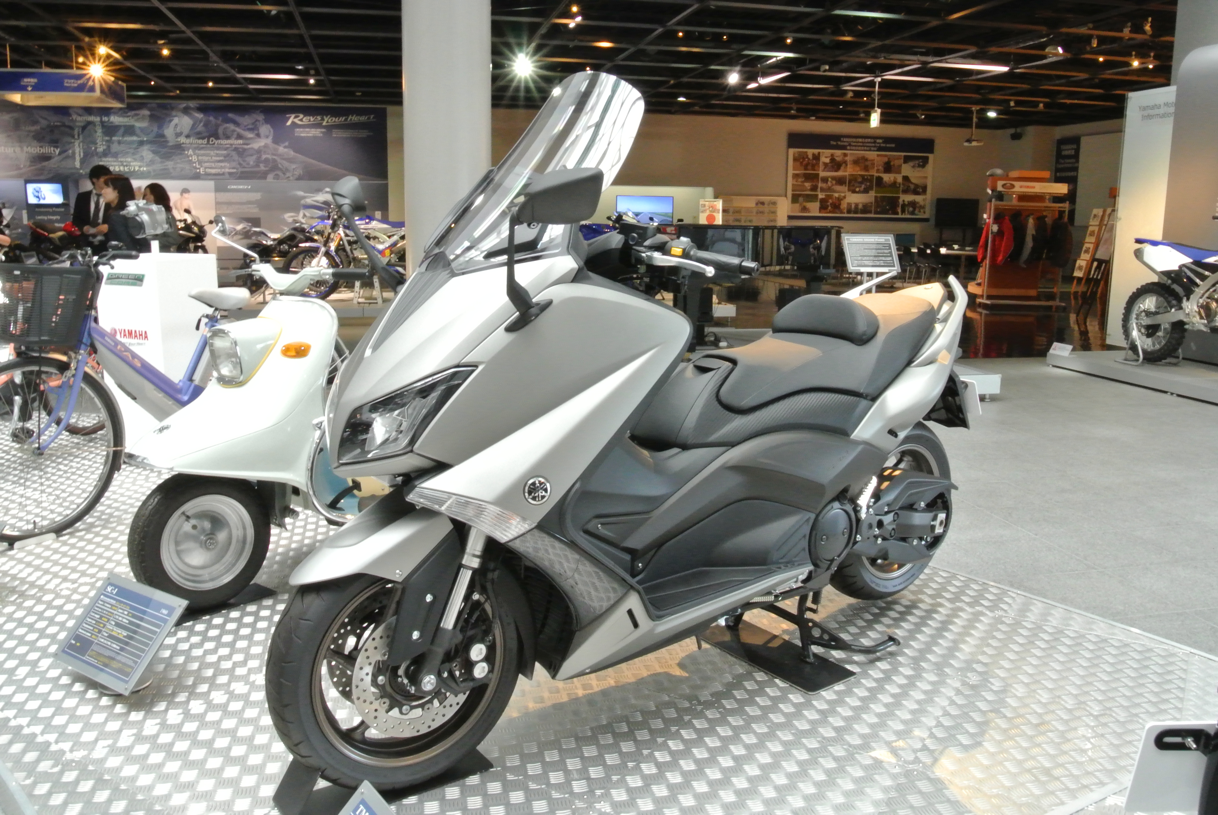 2015 Yamaha Scooter TMAX530 in the Yamaha Communication Plaza.